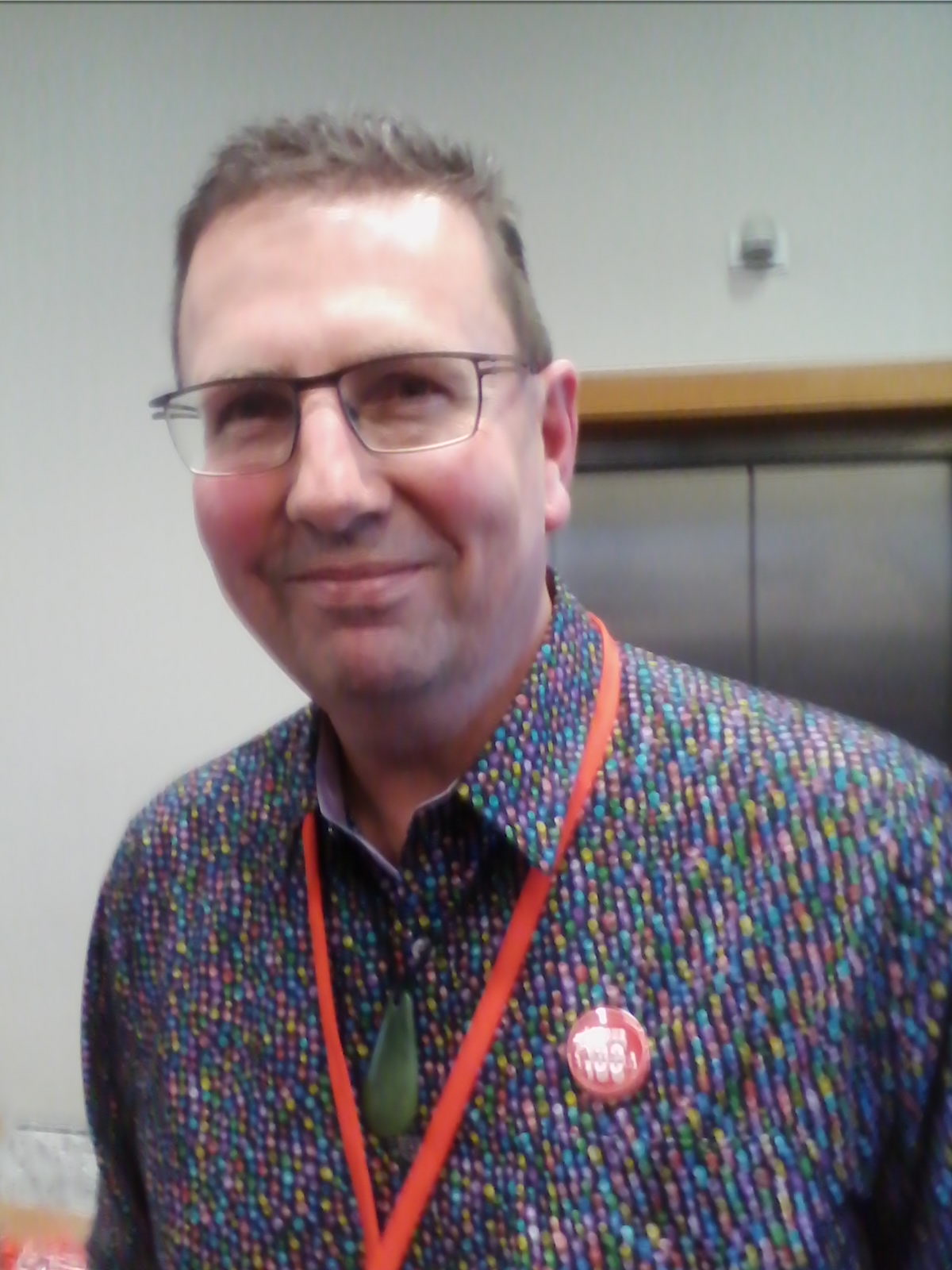 Photo of Tim Barnett at 2015 Labour Party Conference.